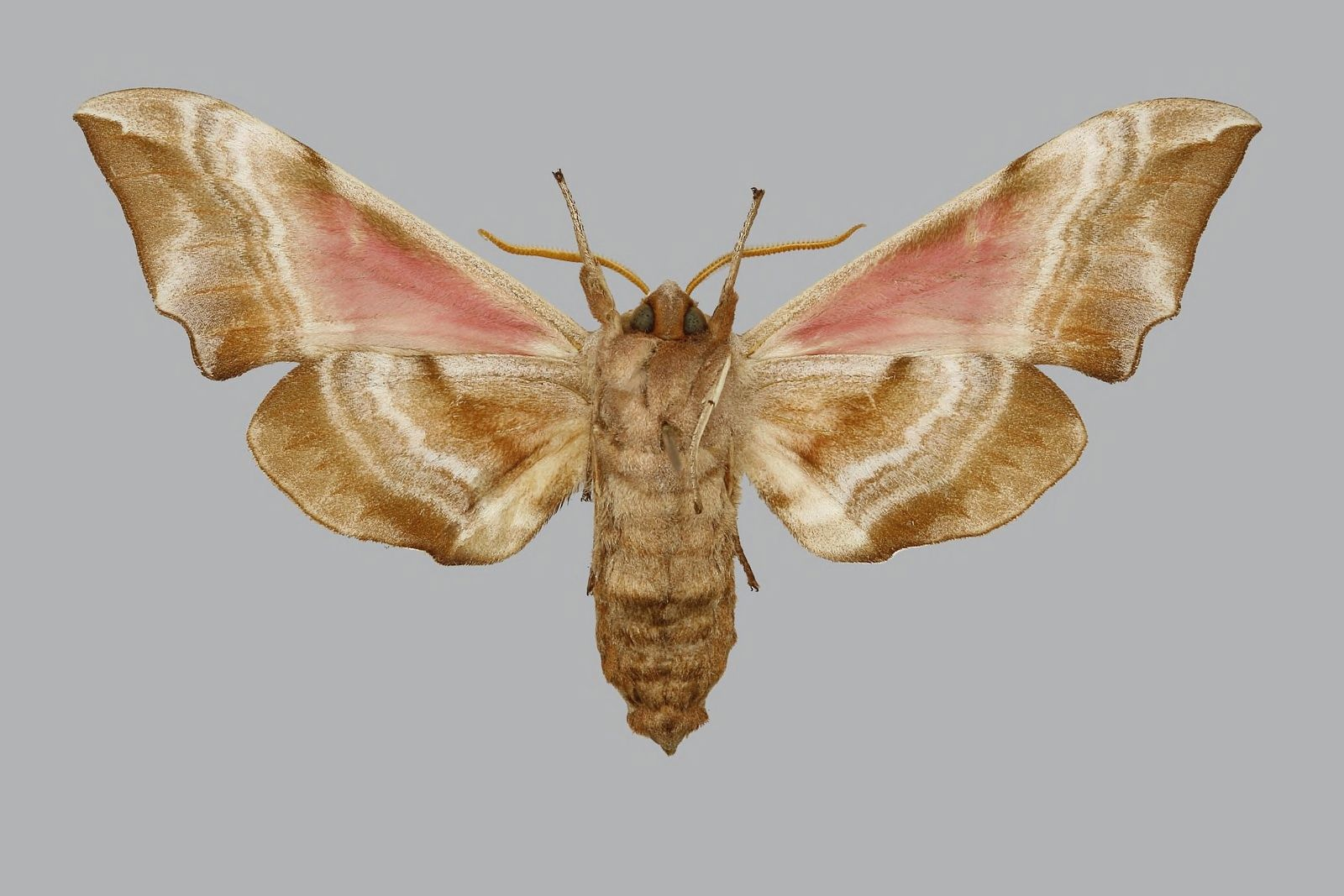 Smerinthus atlanticus male underside